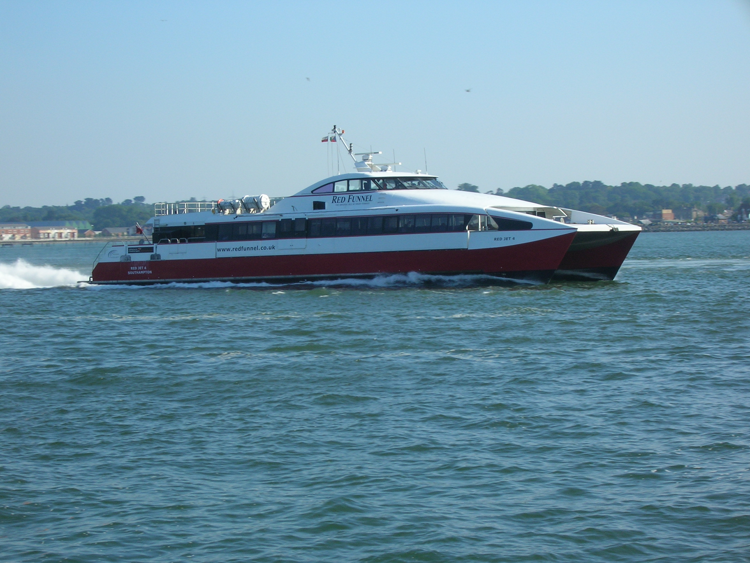 Red Jet 4, fast ferry coming from the Isle of Wight to Southampton.